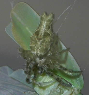 Female, St. Lucie County, Florida, USA